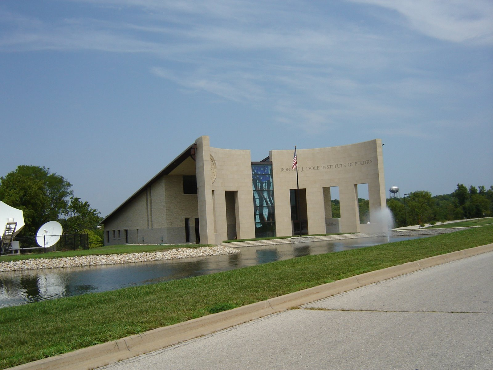 Robert J. Dole Institute of Politics